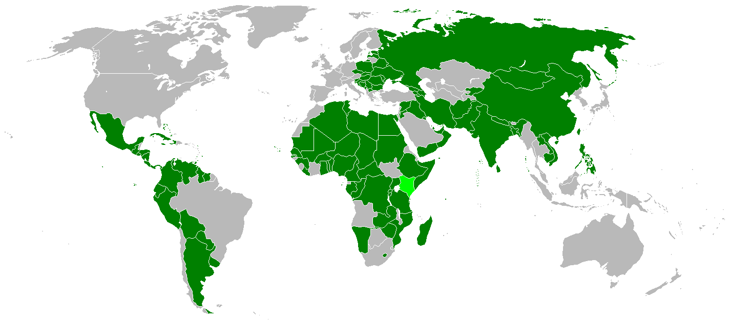 A map of parties to the International Convention on the Suppression and Punishment of the Crime of Apartheid, as compiled from the UNTC's ratification list. Parties in dark green, countries which have signed but not ratified in light green, non-members in grey. Based on BlankMap-World.png made by Vardion. Coloured by IdiotSavant